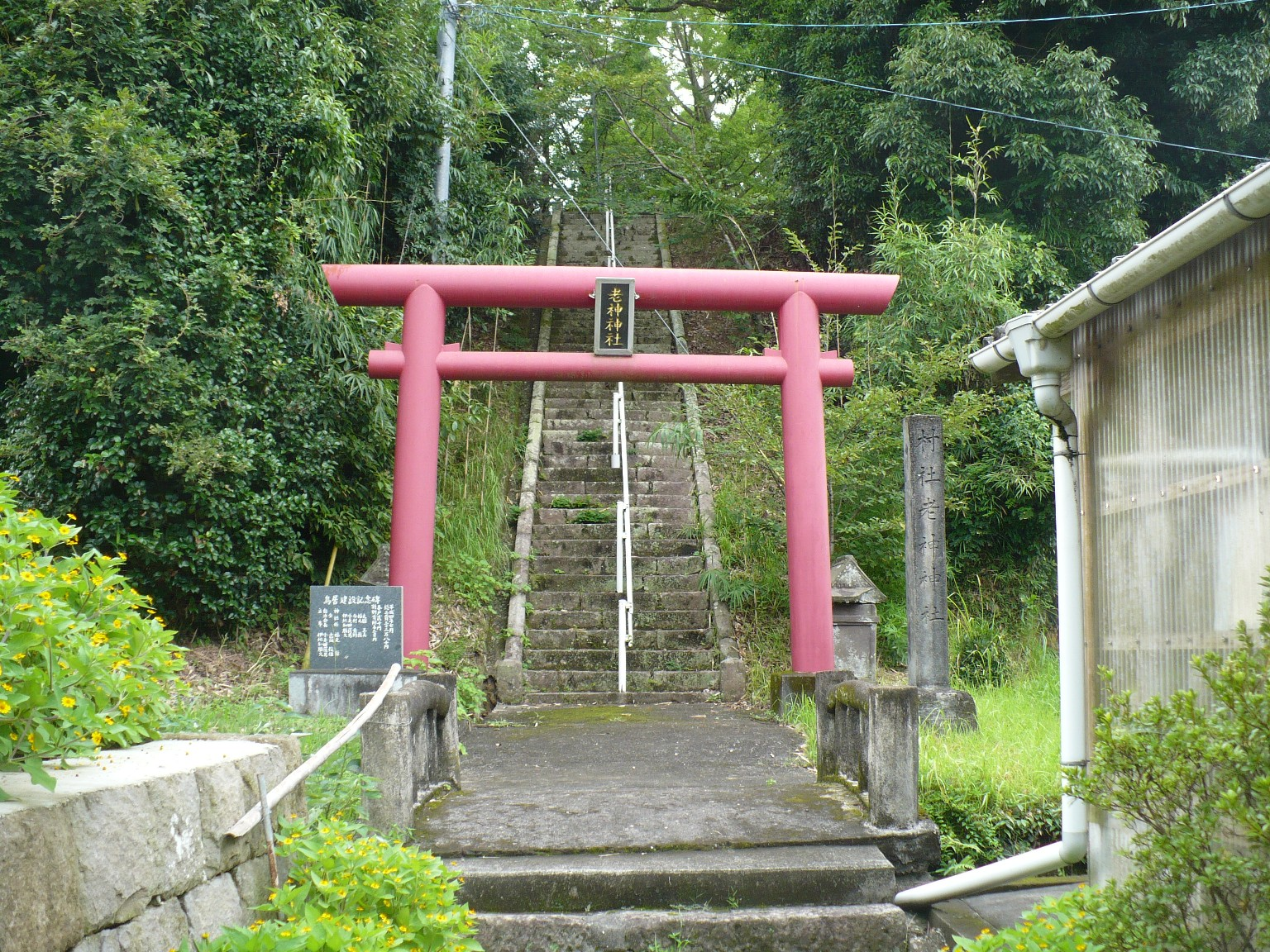 Torii of Oikami shrine, Aira, Kagoshima, Japan